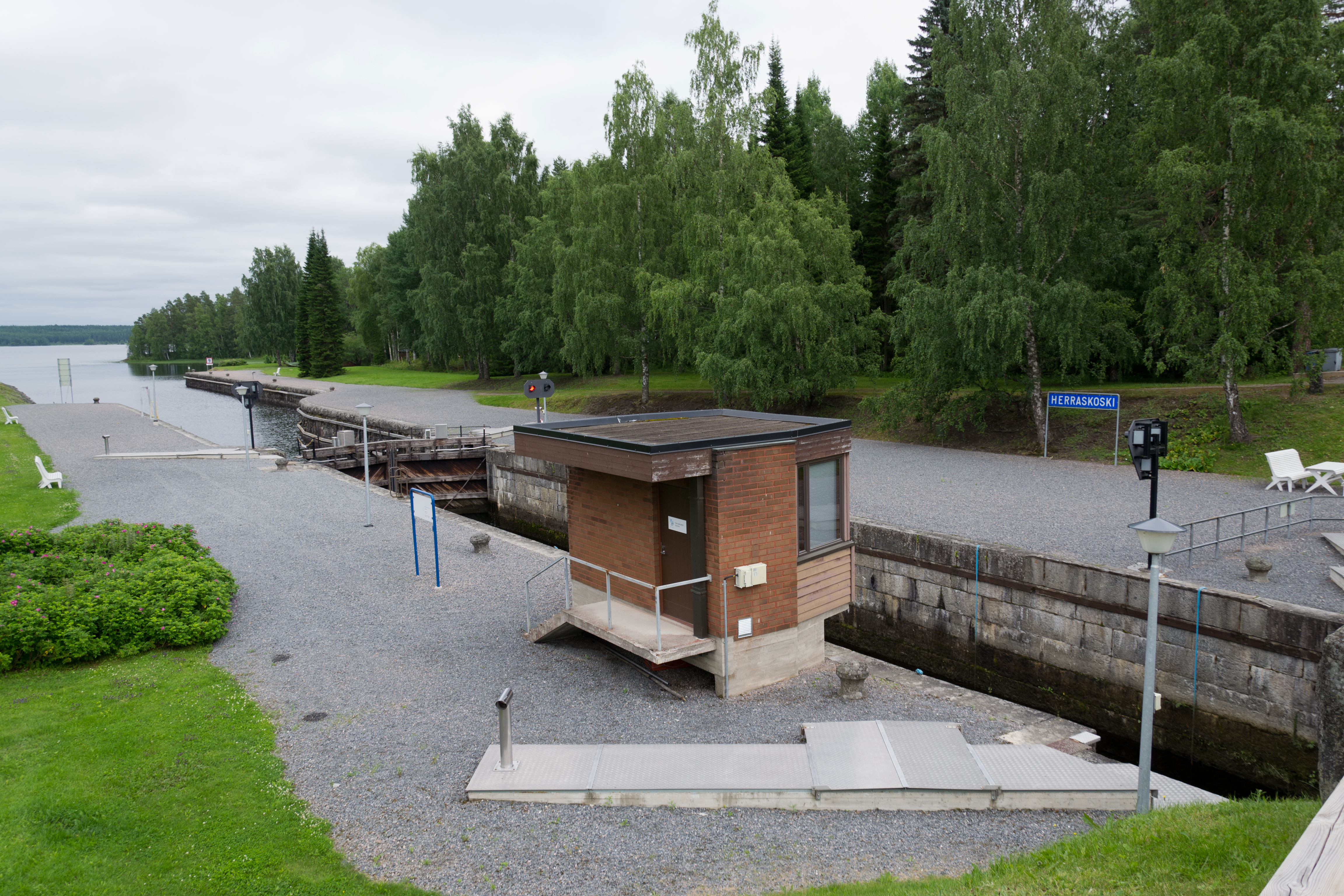 Canal of Herraskoski